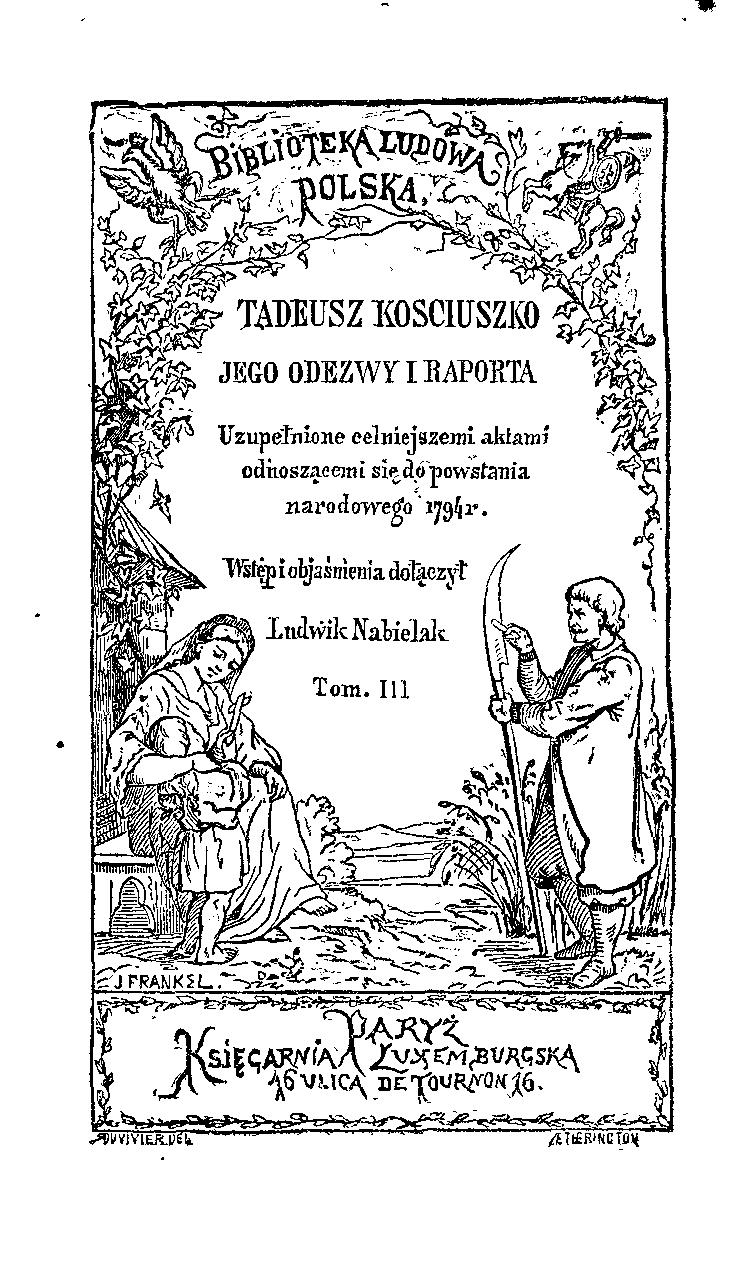 "Tadeusz Kościuszko jego odezwy i raporta t.3" Ludwik Nabielak 1870.